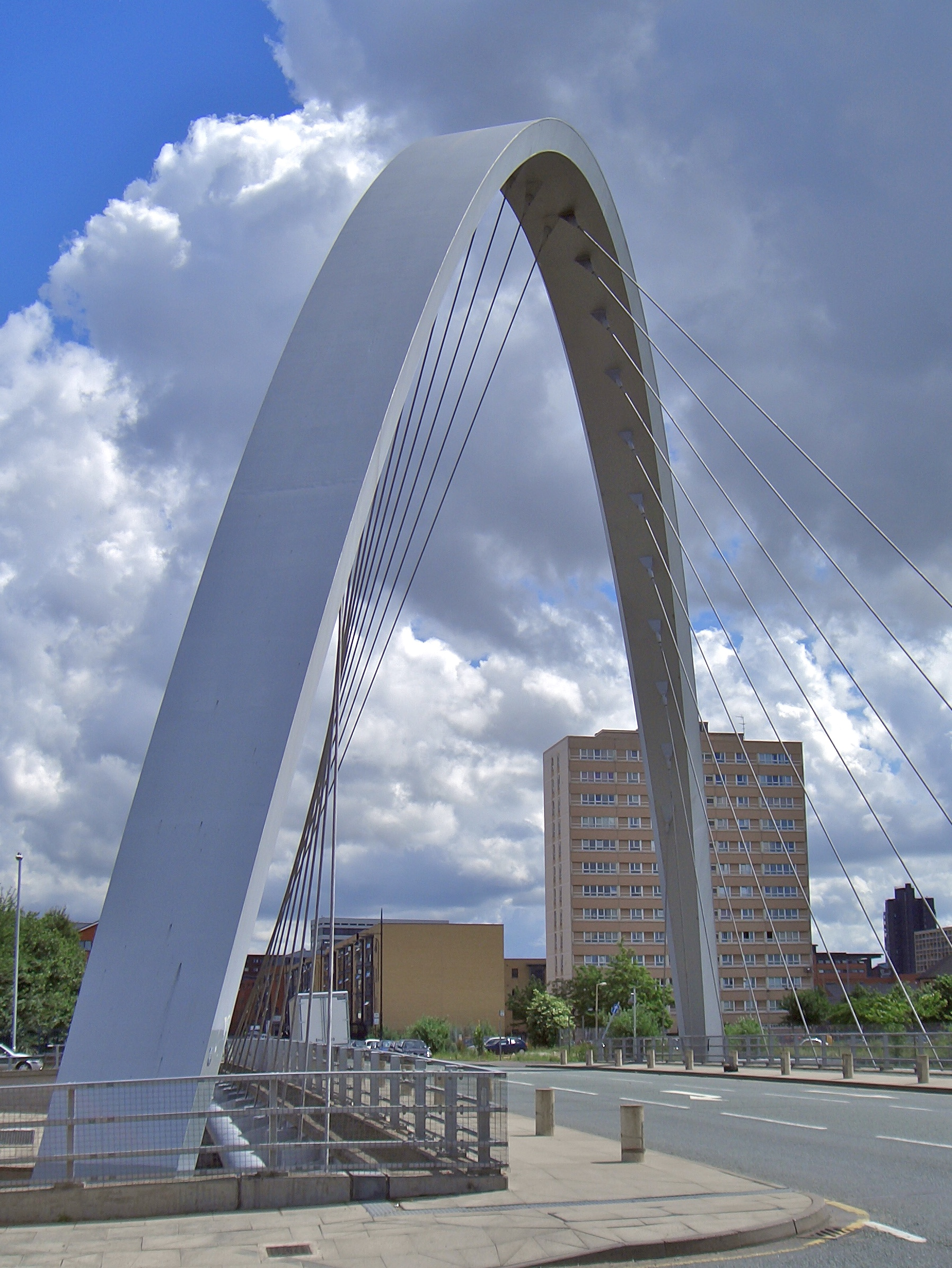 Hulme Arch Bridge, Hulme, Manchester, England.